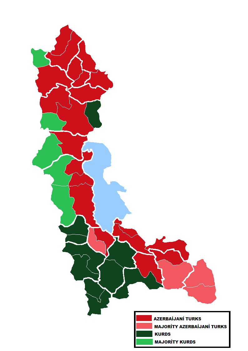 The ethnic composition of the population of West Azerbaijan Province (2005)